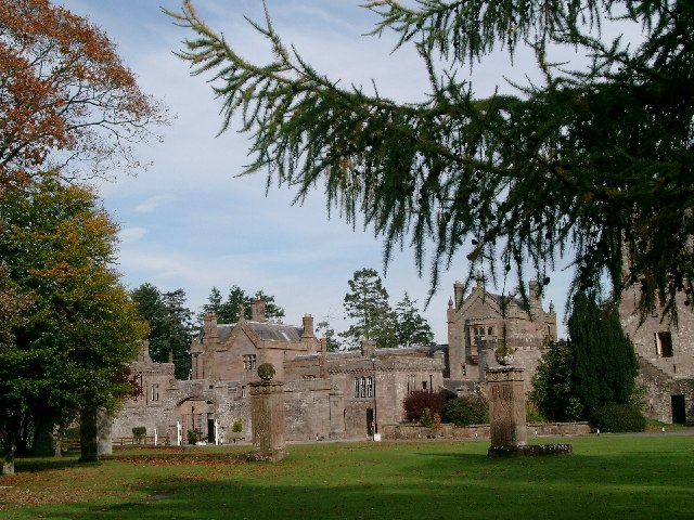 Hoddom Castle. Picturesque dereliction in the centre of a top-rated caravan site with own golf course.